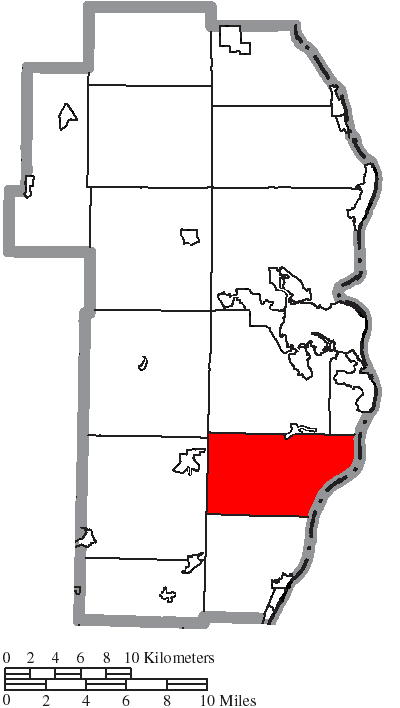 Map of the municipal and township boundaries of Jefferson County, Ohio, United States, as of the 2000 census, with the location of Wells Township highlighted. Township borders are shown only in unincorporated areas in order to differentiate incorporated and unincorporated areas more clearly.